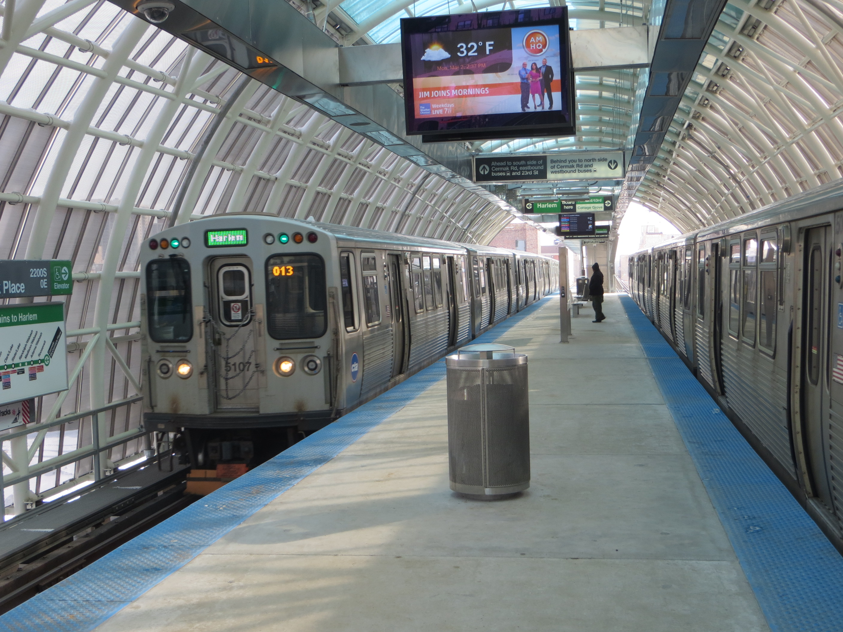 20150302 27 CTA Green Line L @ Cermak McCormick Place